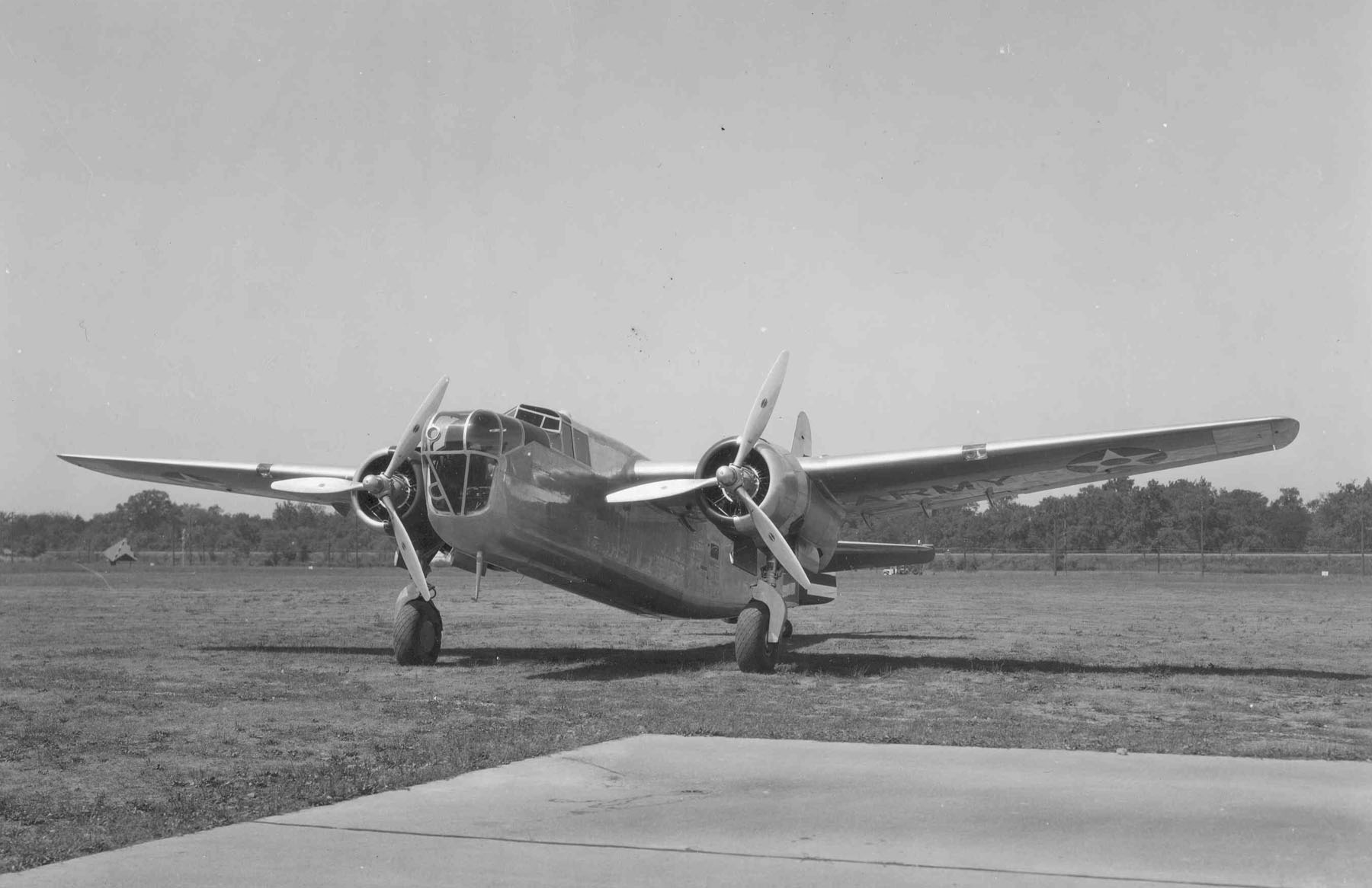 Stearman XA-21 parked